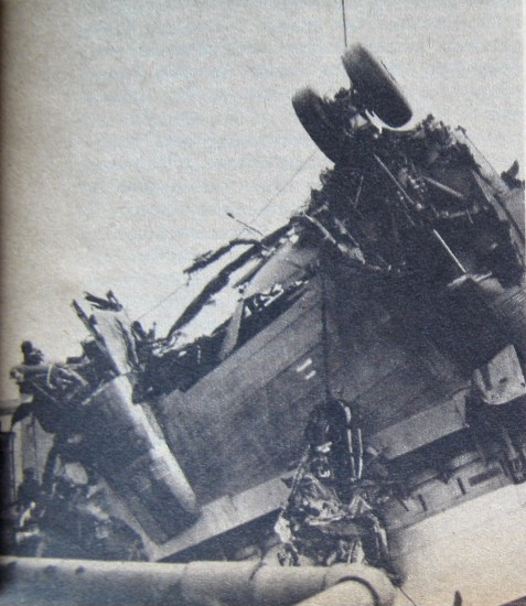 Photo of the crash of Eastern Air Lines Flight 375, a Lockheed L-188 Electra that was brought down by a bird strike in 1960. The photo was taken by the Civil Aeronautics Board (CAB) in the course of their investigation of the crash. The CAB is the precursor to today's National Transportation Safety Board (NTSB), and was a part of the Department of Transportation.